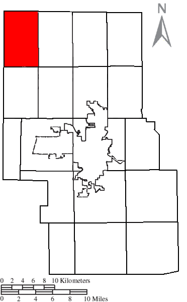 Made by the US Census and altered by myself to highlight the township